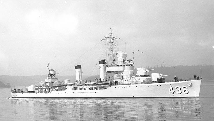 The USS Monssen (DD-436) off the Puget Sound Navy Yard, Bremerton, Washington, 7 May 1941. Official U.S. Navy Photograph, from the collections of the Naval Historical Center. This image is cropped from original at